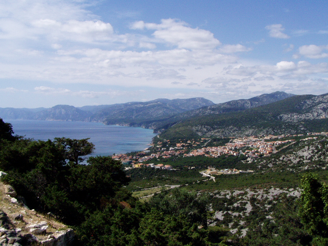 Sardinia - Cala Gonone